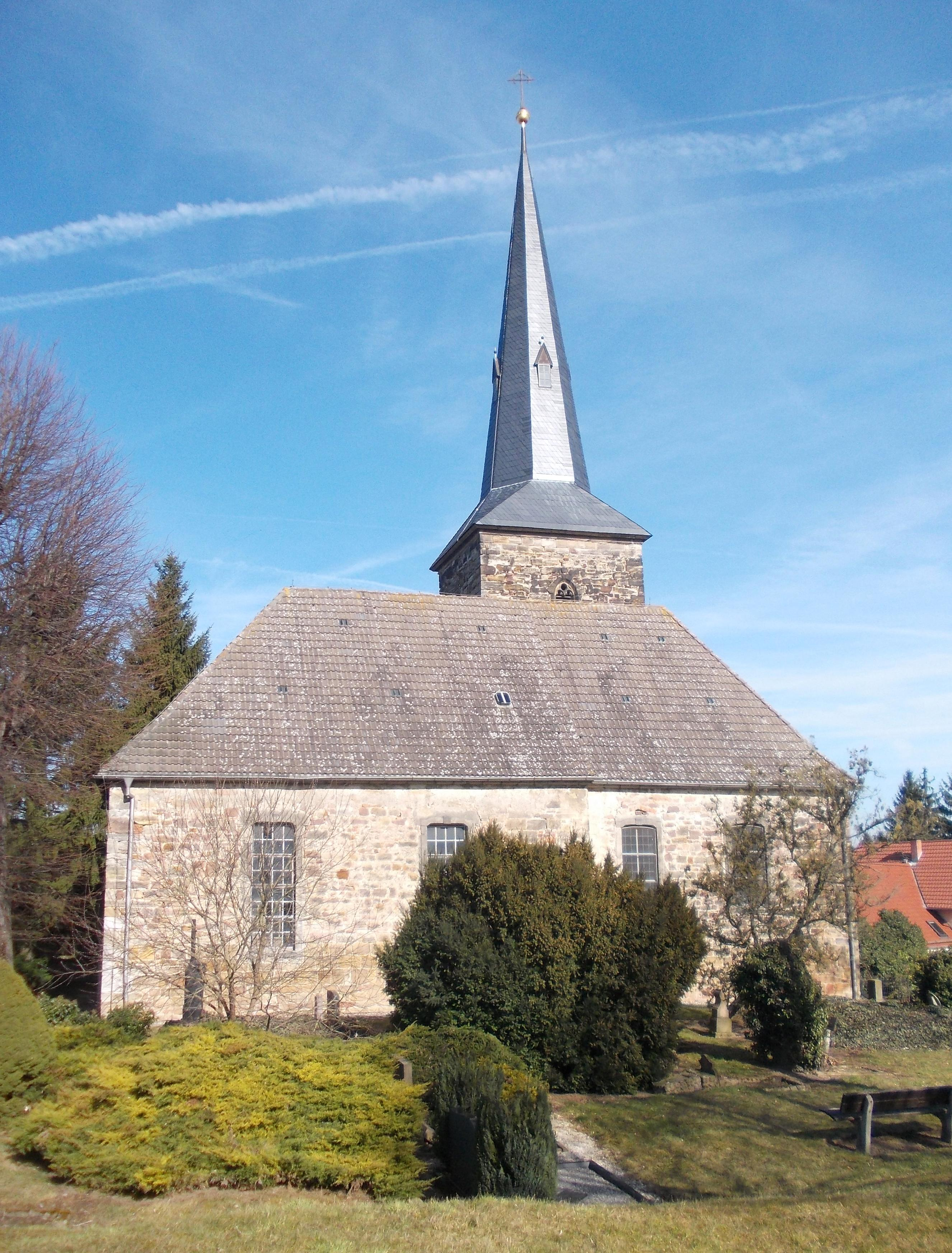 Gröbitz church (Teuchern, district: Burgenlandkreis, Saxony-Anhalt)